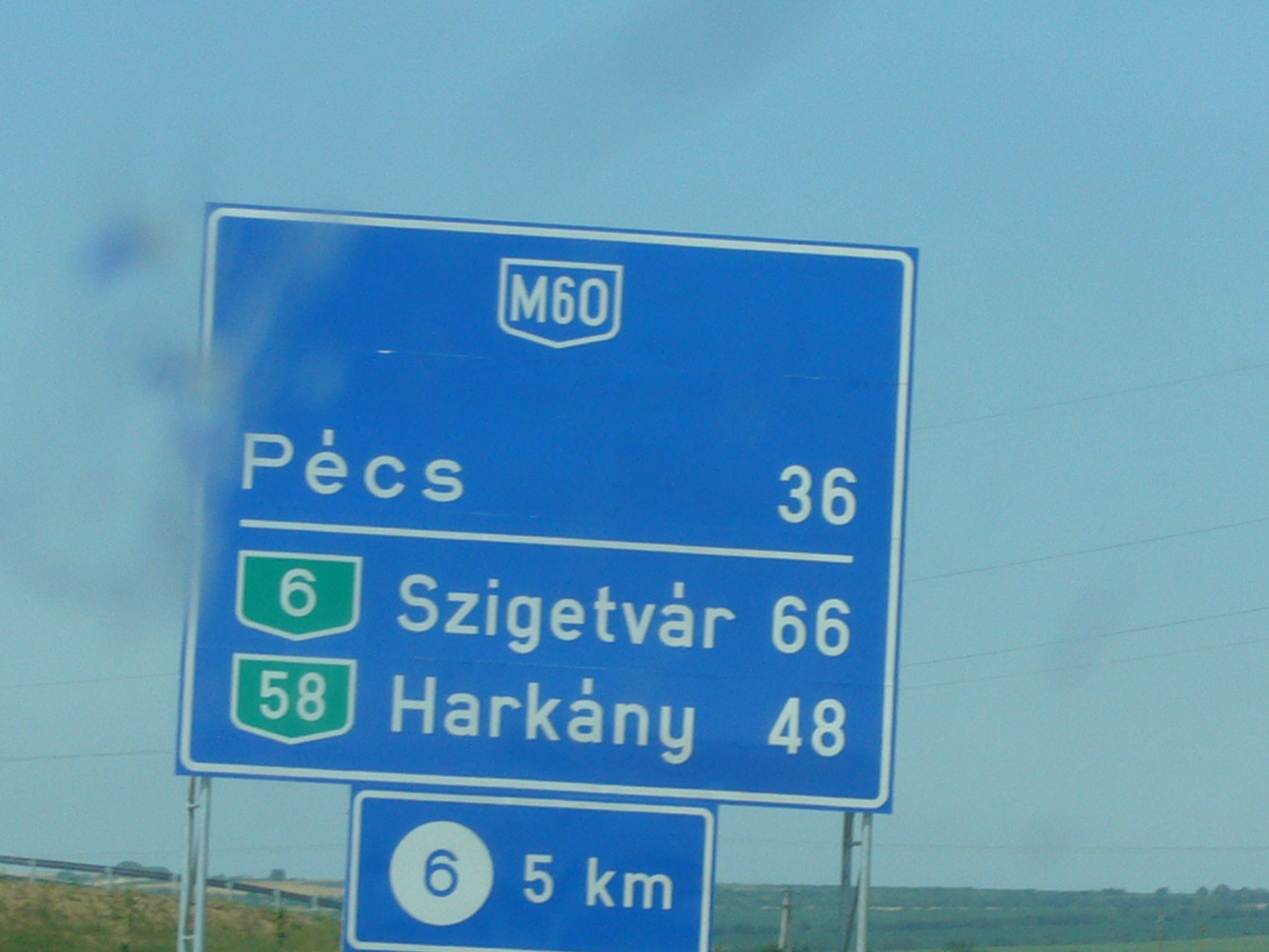 Table of M60 motorway